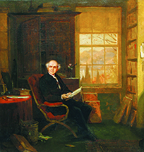 Portrait of the artist's father-in-law